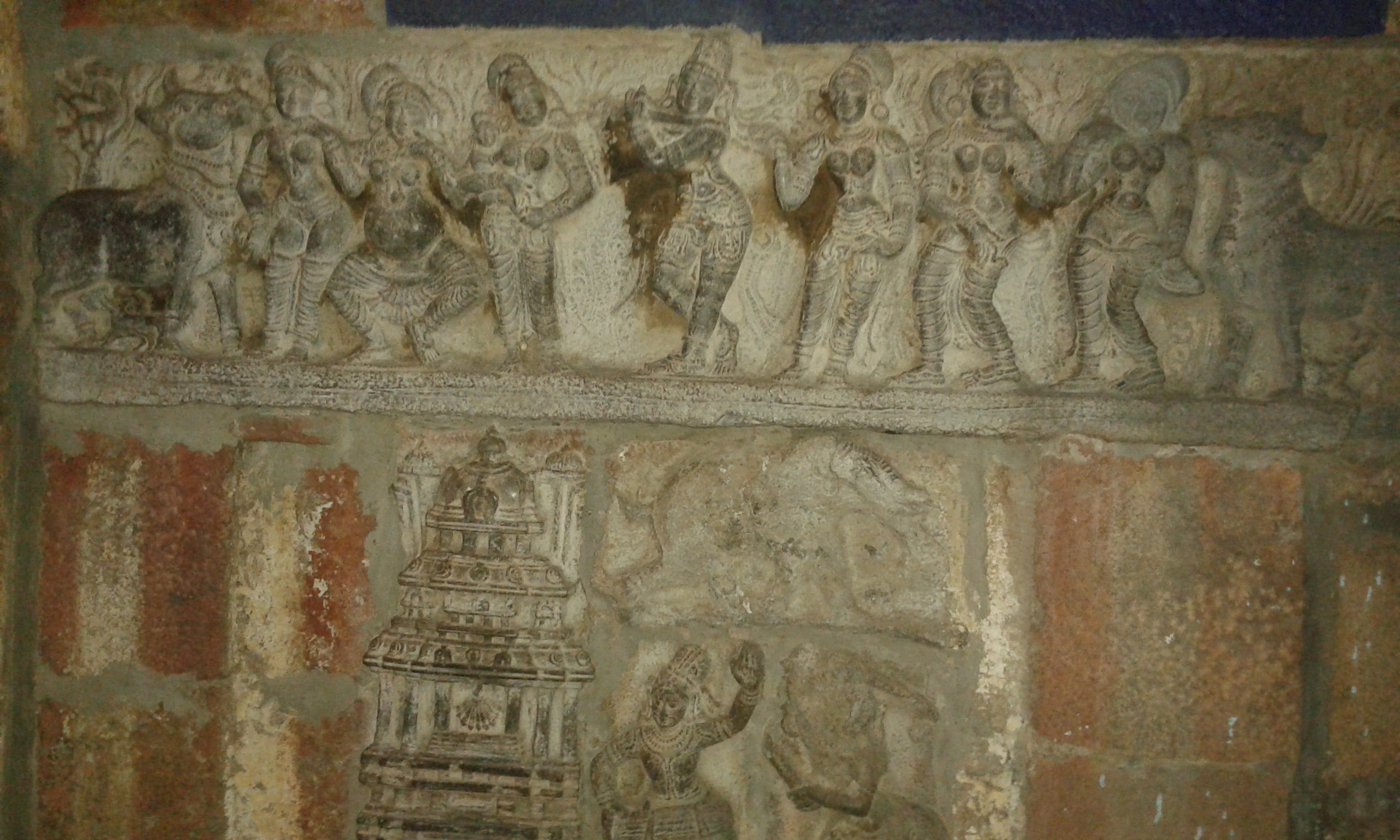 Thirukodikaval